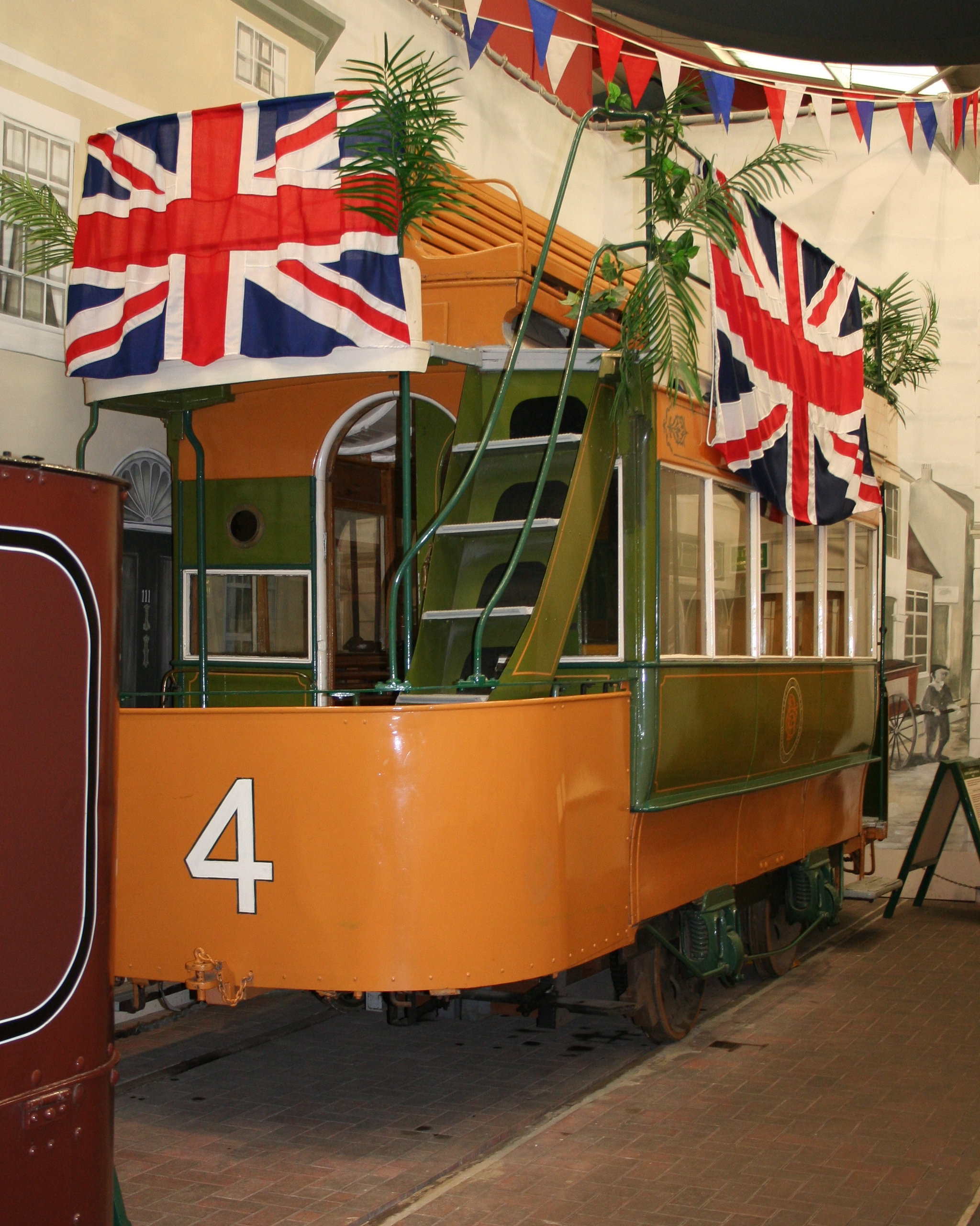 Crich Tramway Museum Extravaganza